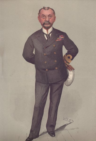 Caricature of Captain Percy Scott RN ADC CB LLD. Caption read "Gunnery".